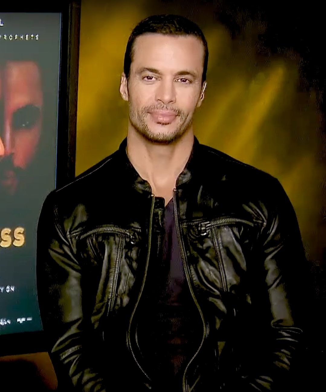 BET+ Tyler Perry's Ruthless drama